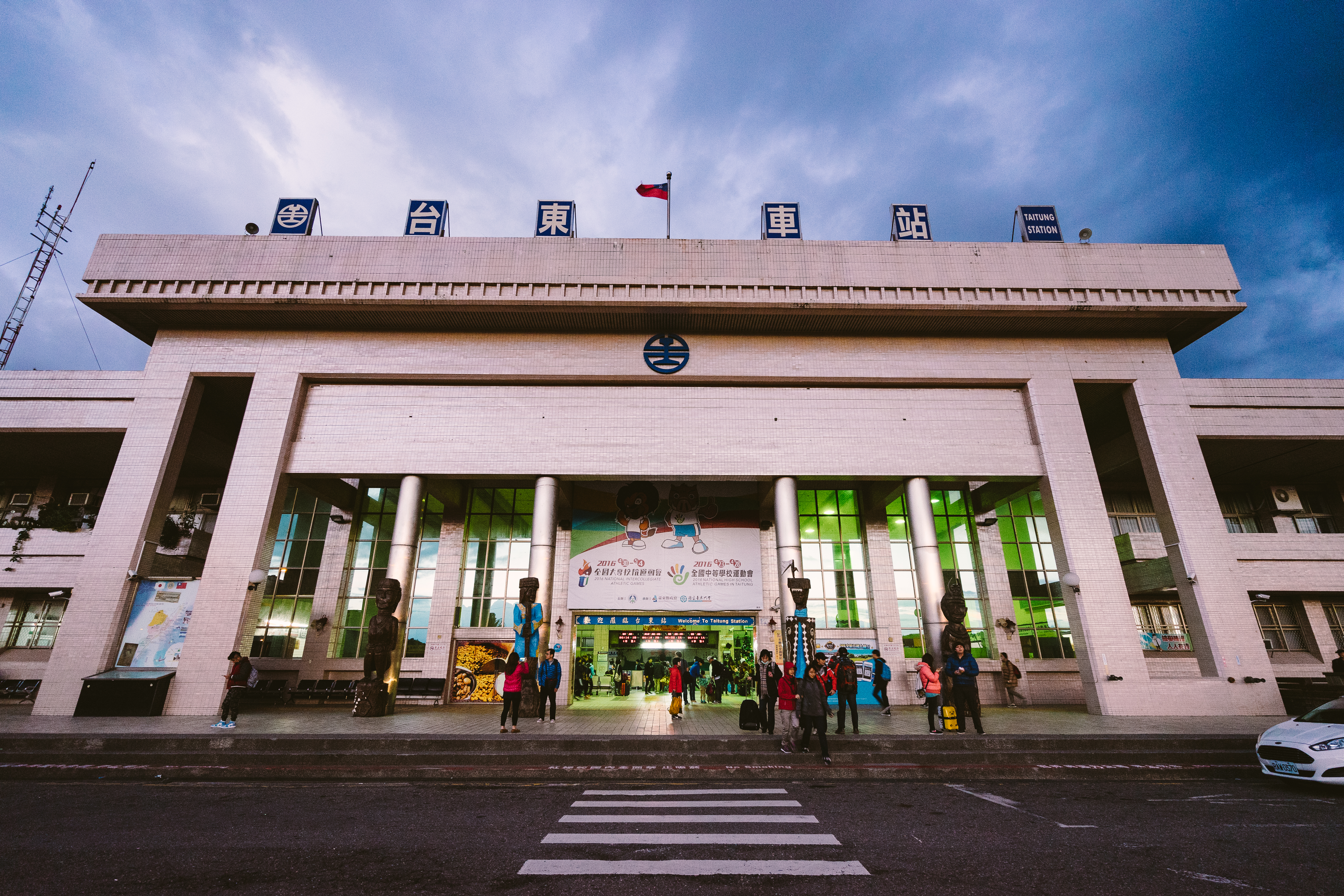 Taitung Station, Taiwan Railway Administration.